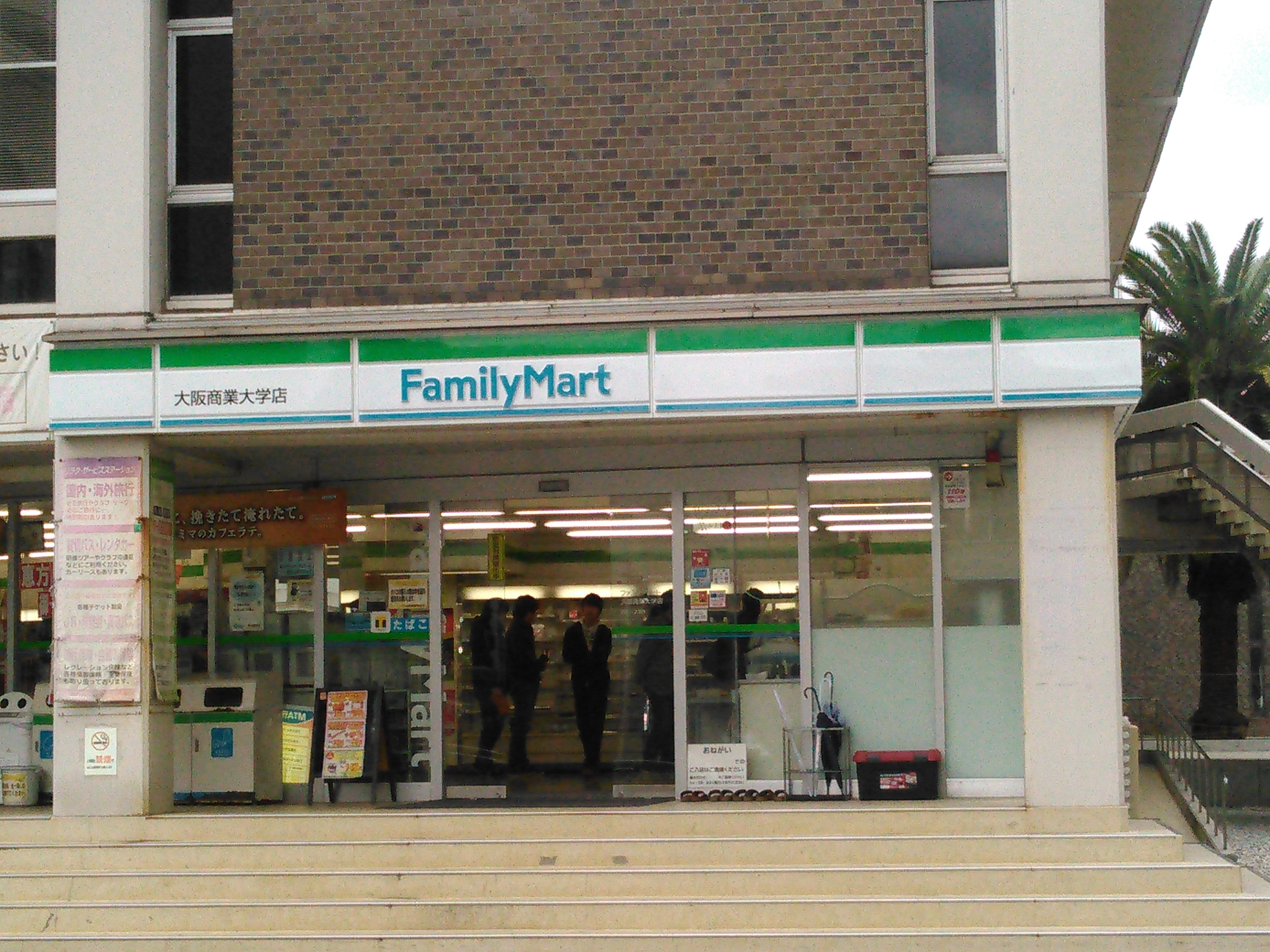 Family Mart in Osaka Shogyo Univ